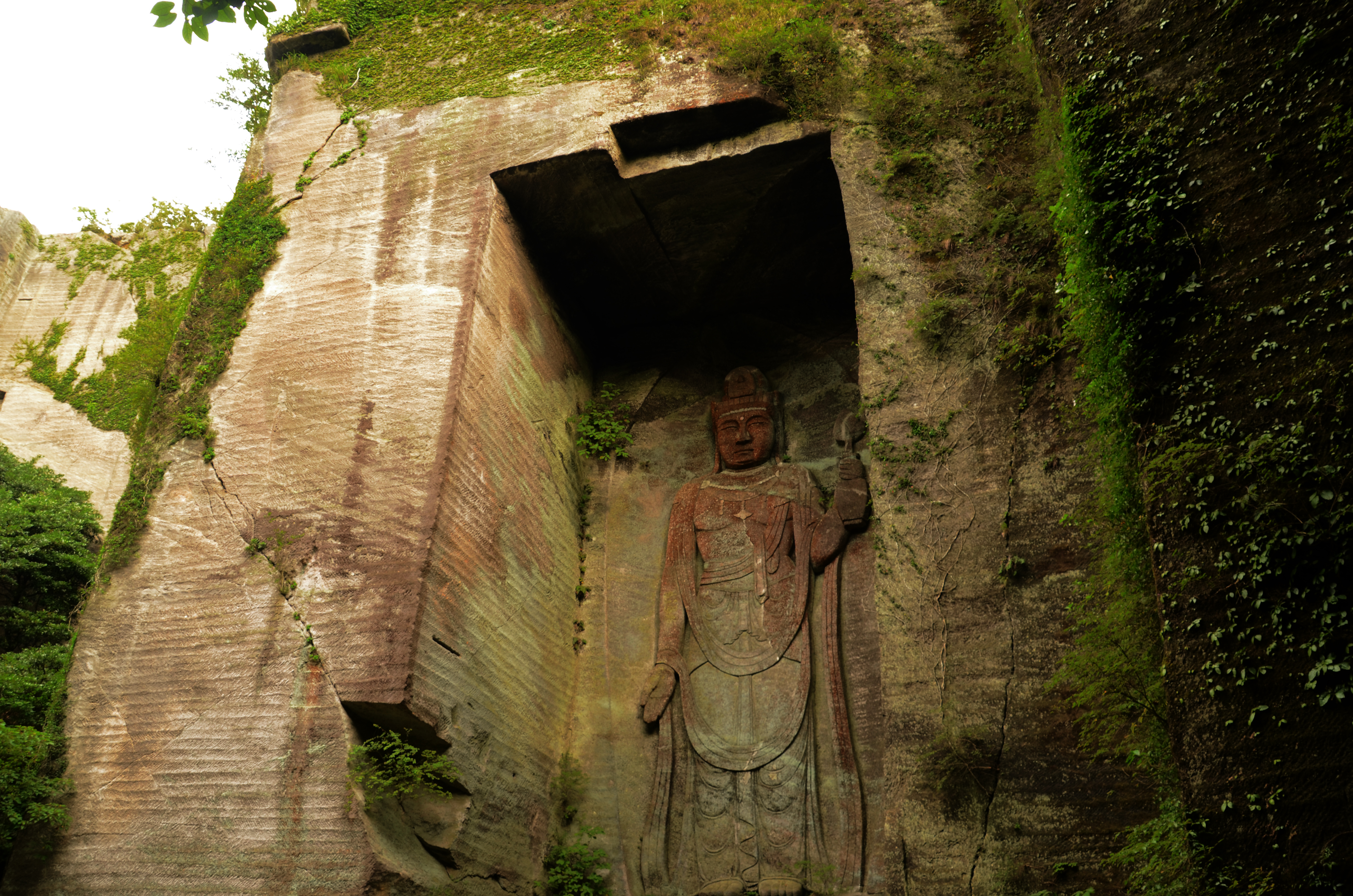 Nihonji Temple - Kwan Non. Japan.